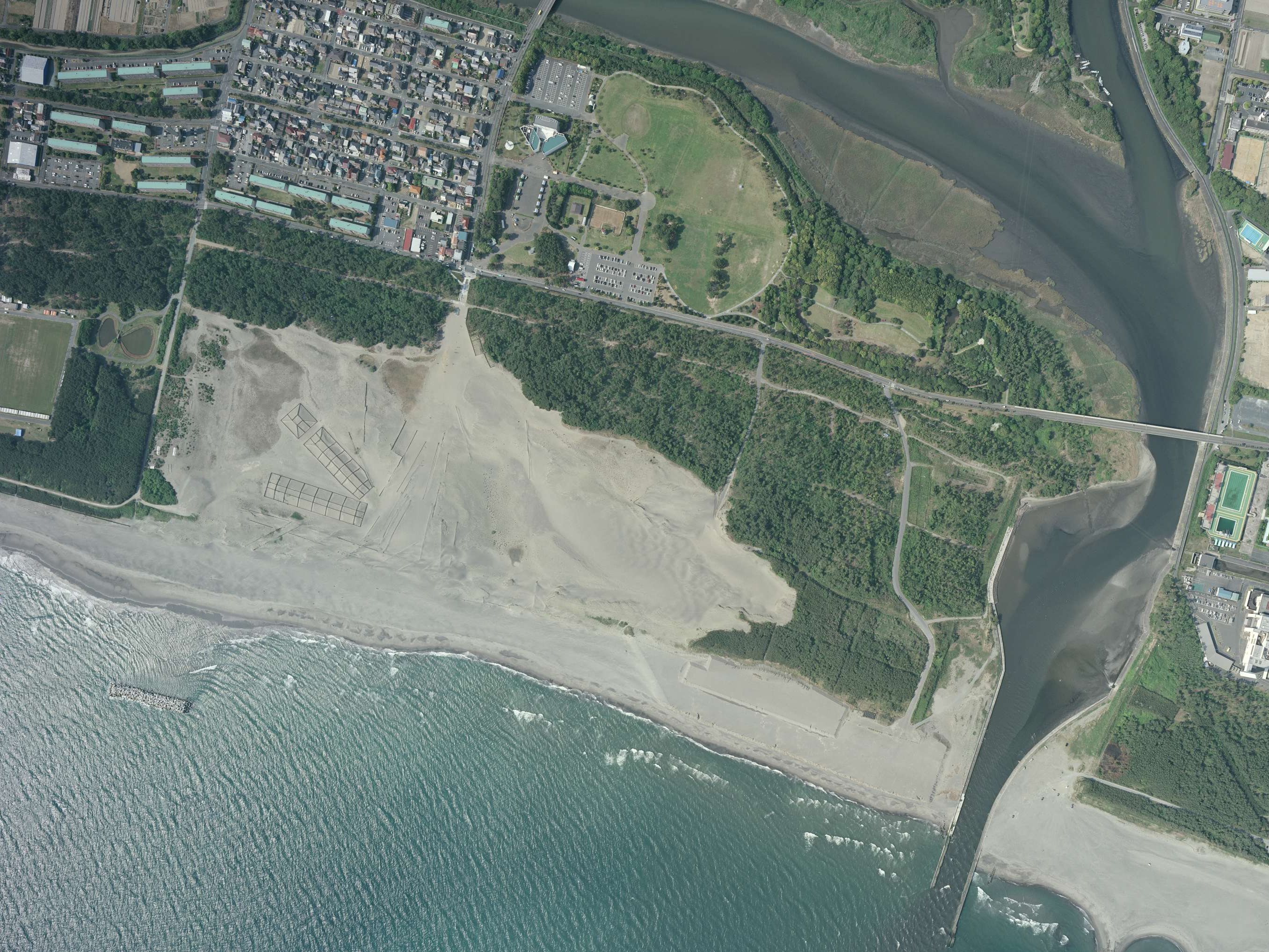 Aerial view of Nakatajima Sand Dunes and Magome River in Hamamatsu, Shizuoka Prefecture, Honshu, Japan. This is a retouched picture, which means that it has been digitally altered from its original version. Modifications: Cropping. Modifications made by Batholith.